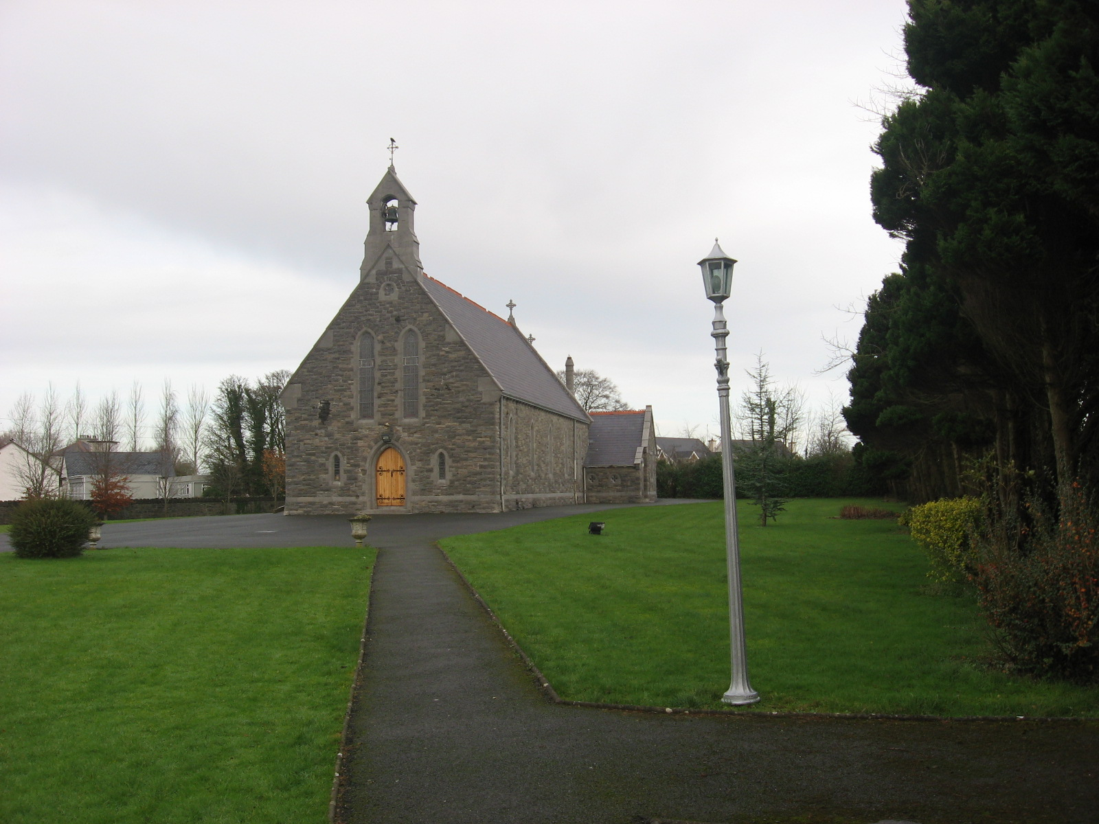 St. Dympna' Church, Kildalkey, Co. Meath, near to Kildalkey, Meath, Ireland. Gothic church built 1890-8. The O.S. 1st edition, surveyed 1836, shows a small 'Natnl School' on this site; the 'R.C. Chapel' was shown then as a T-plan building a little to the NW where there is now a school.